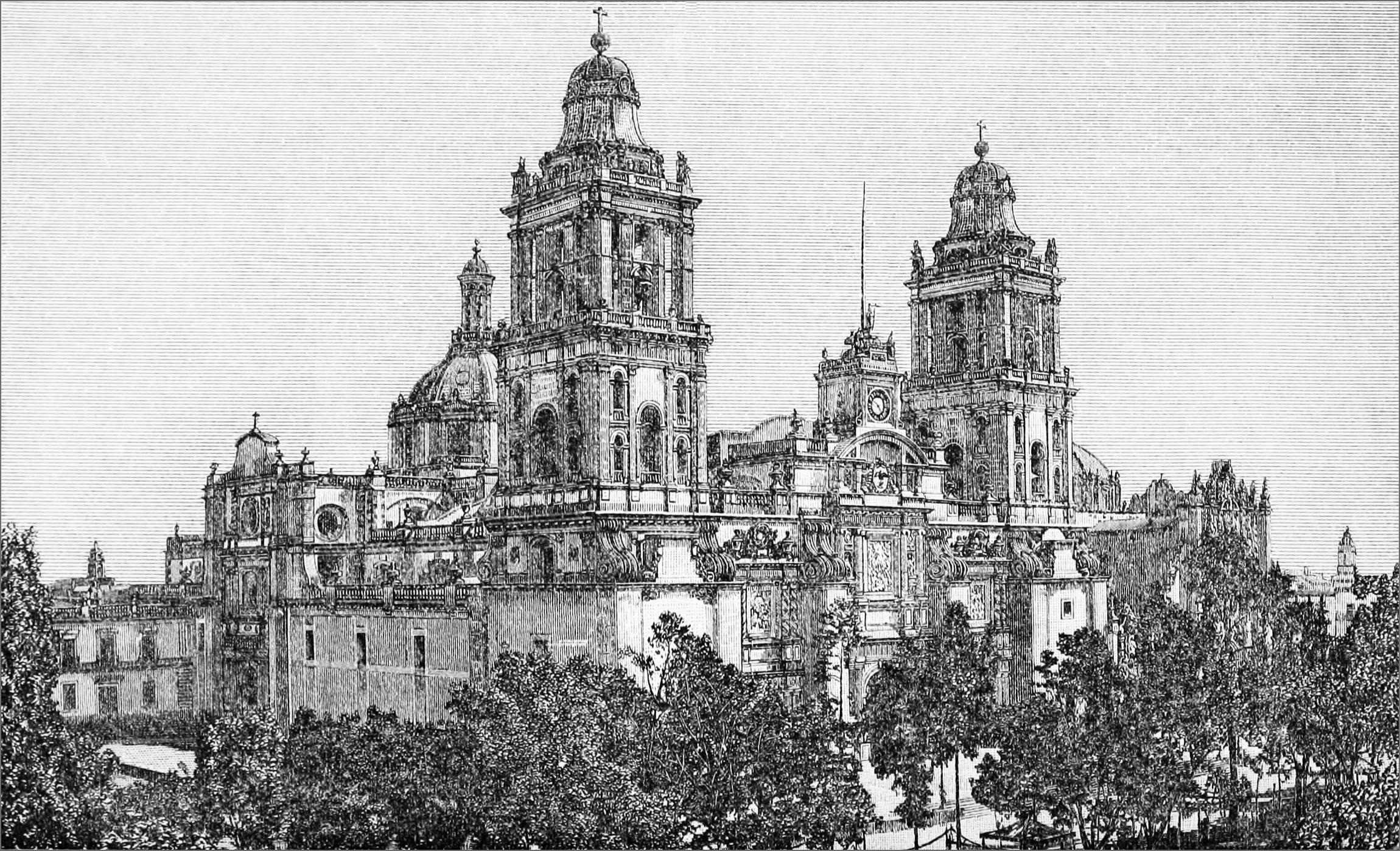 Mexico City Cathedral and the Zocalo circa 1880.